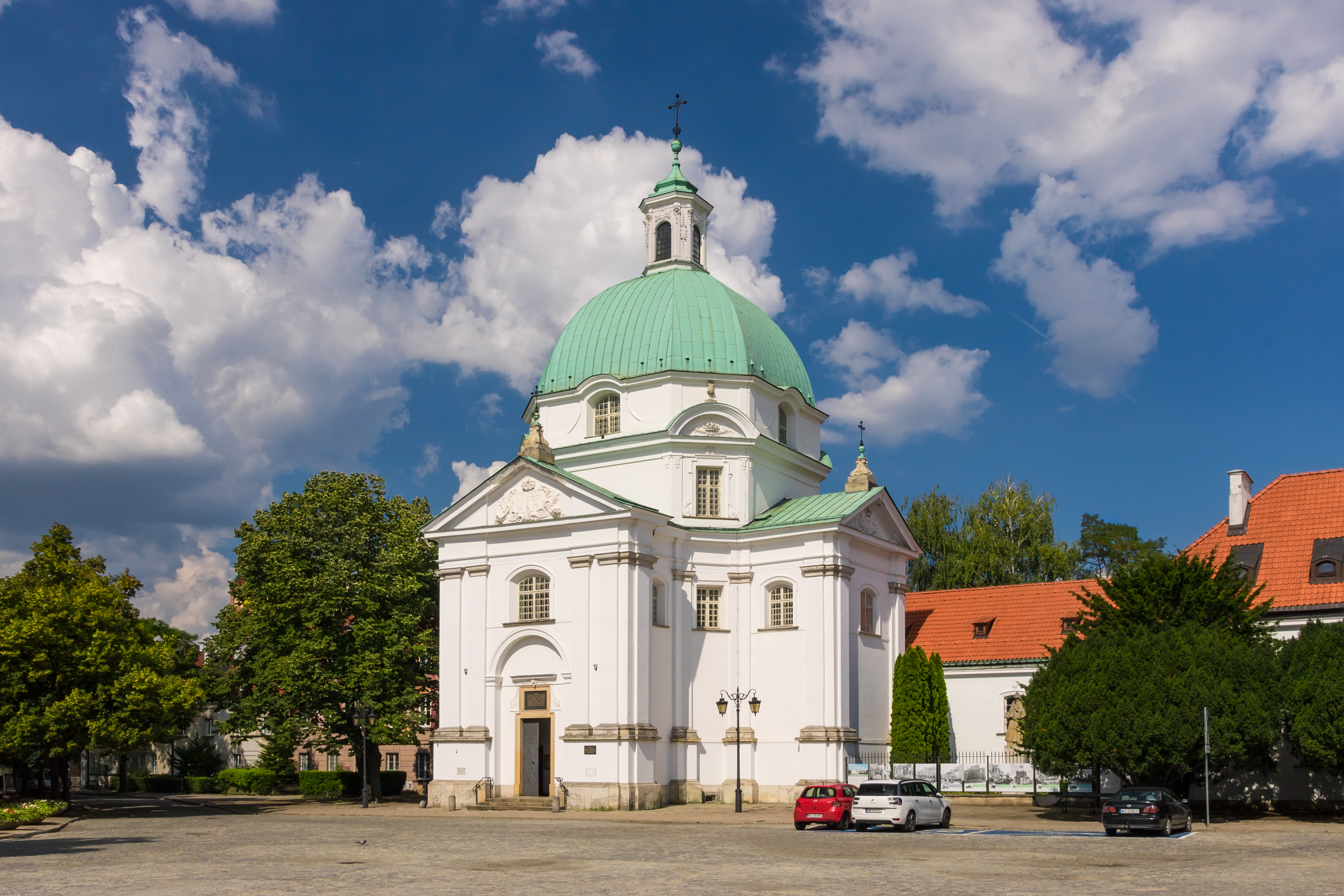 Saint Casimir Church in Warsaw's New Town, Poland (New Town Market Place, no. 2)